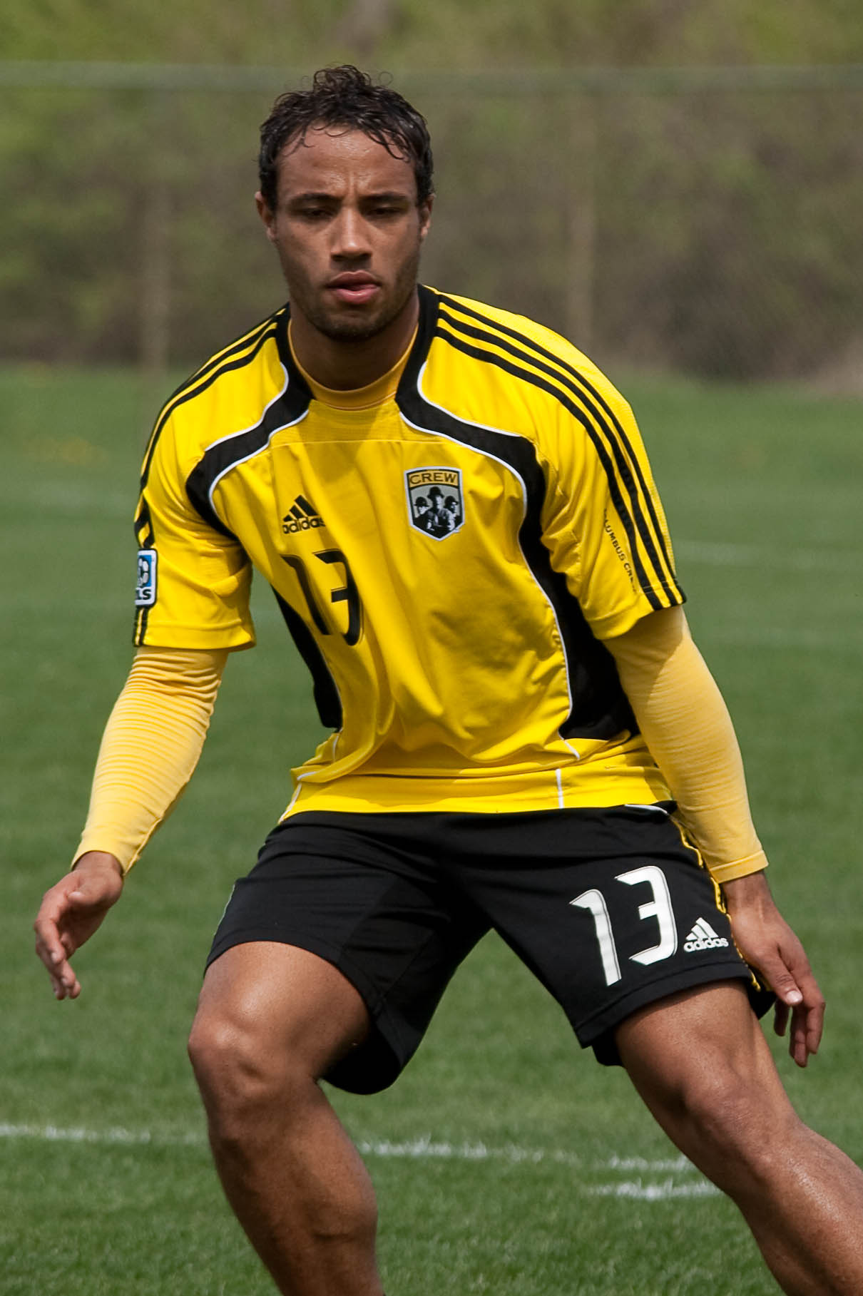 I shot this photo during training on 4/15/2011 at Columbus Crew Training Center in Obetz, Ohio.